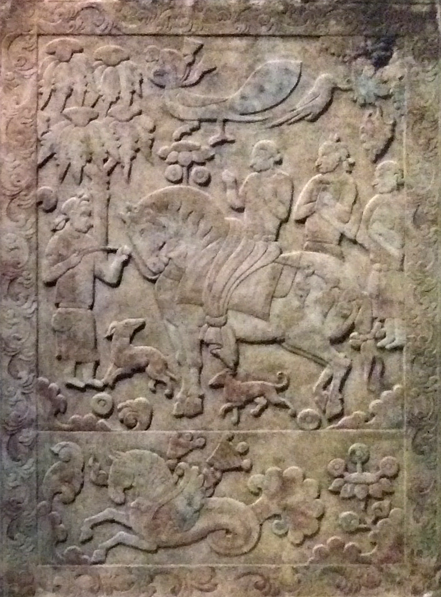 Tomb of Yu Hong Panel 1